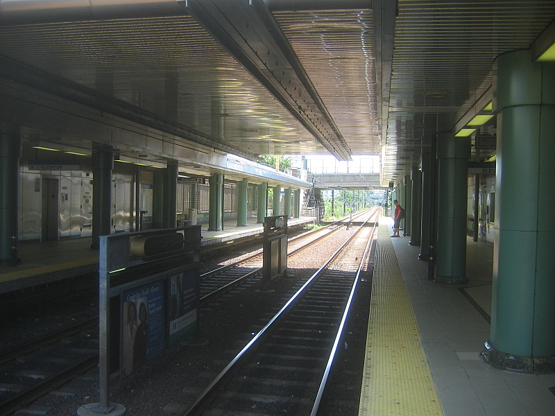 Revere Beach station on the MBTA Blue Line